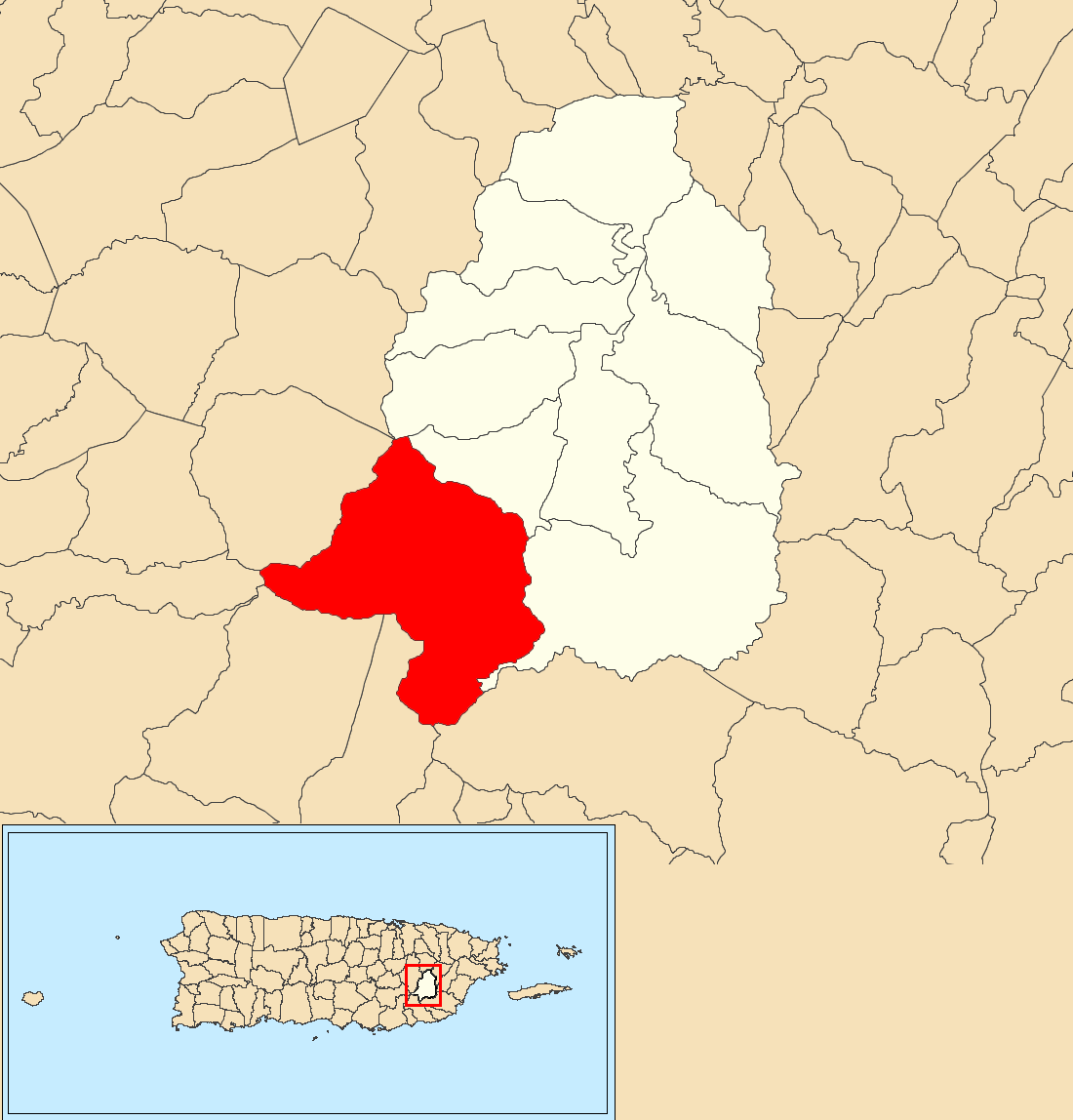 Espino, San Lorenzo, Puerto Rico locator map